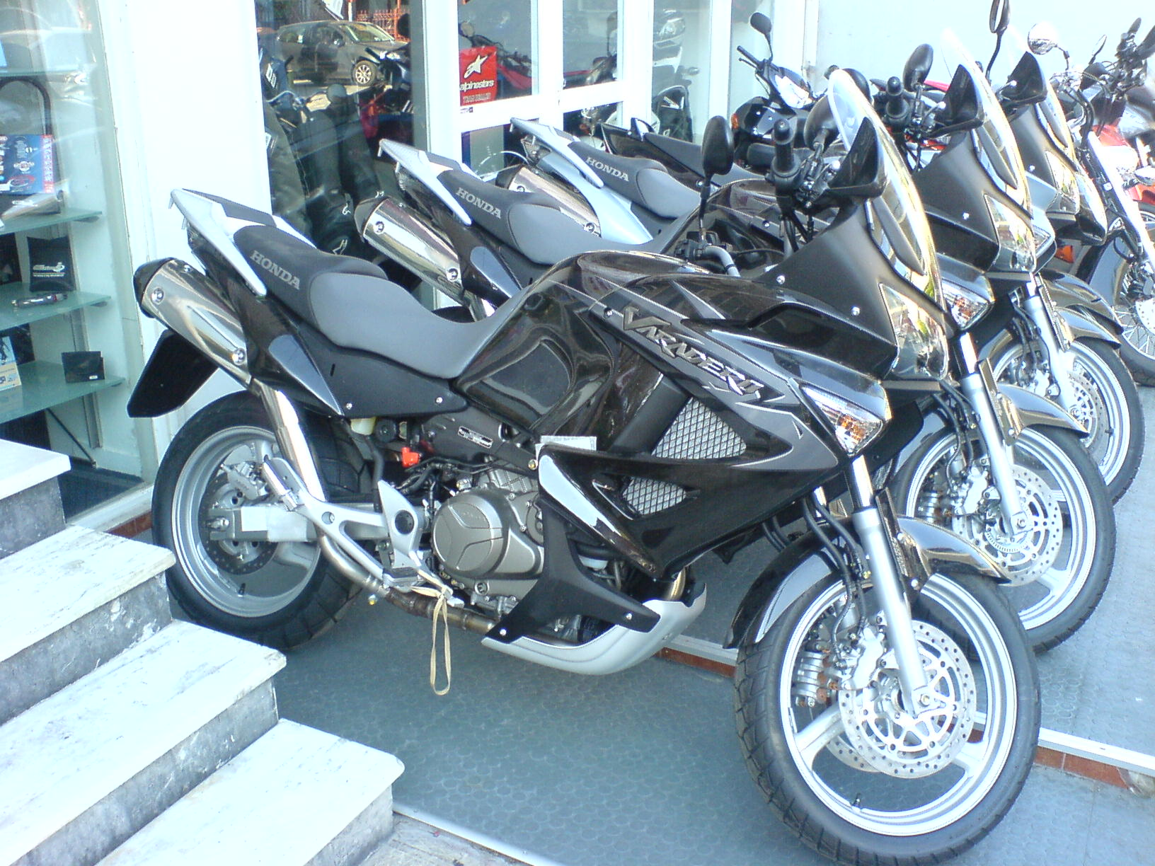 Varadero 1000 2008